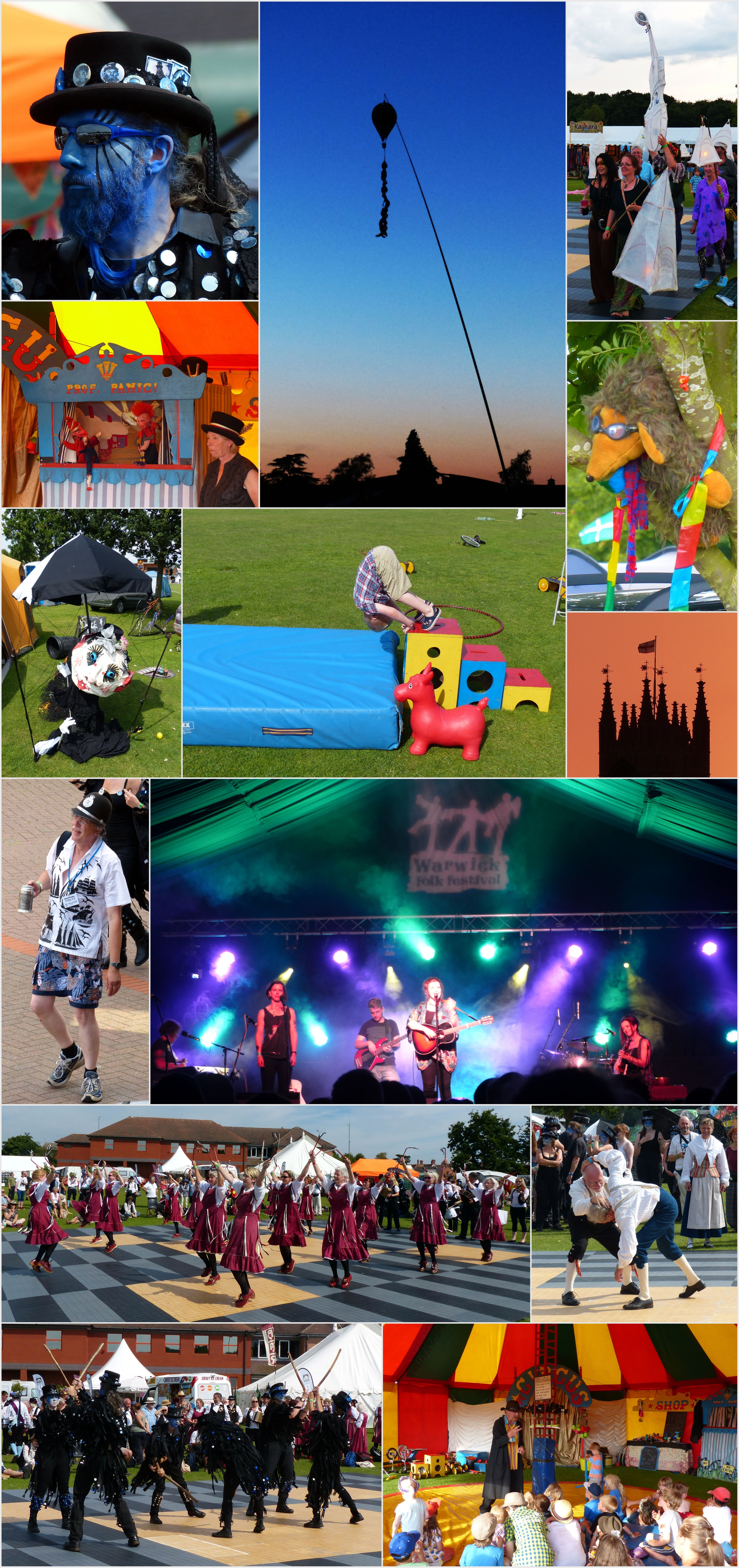 Montage of pictures taken at the 2014 Warwick Folk Festival